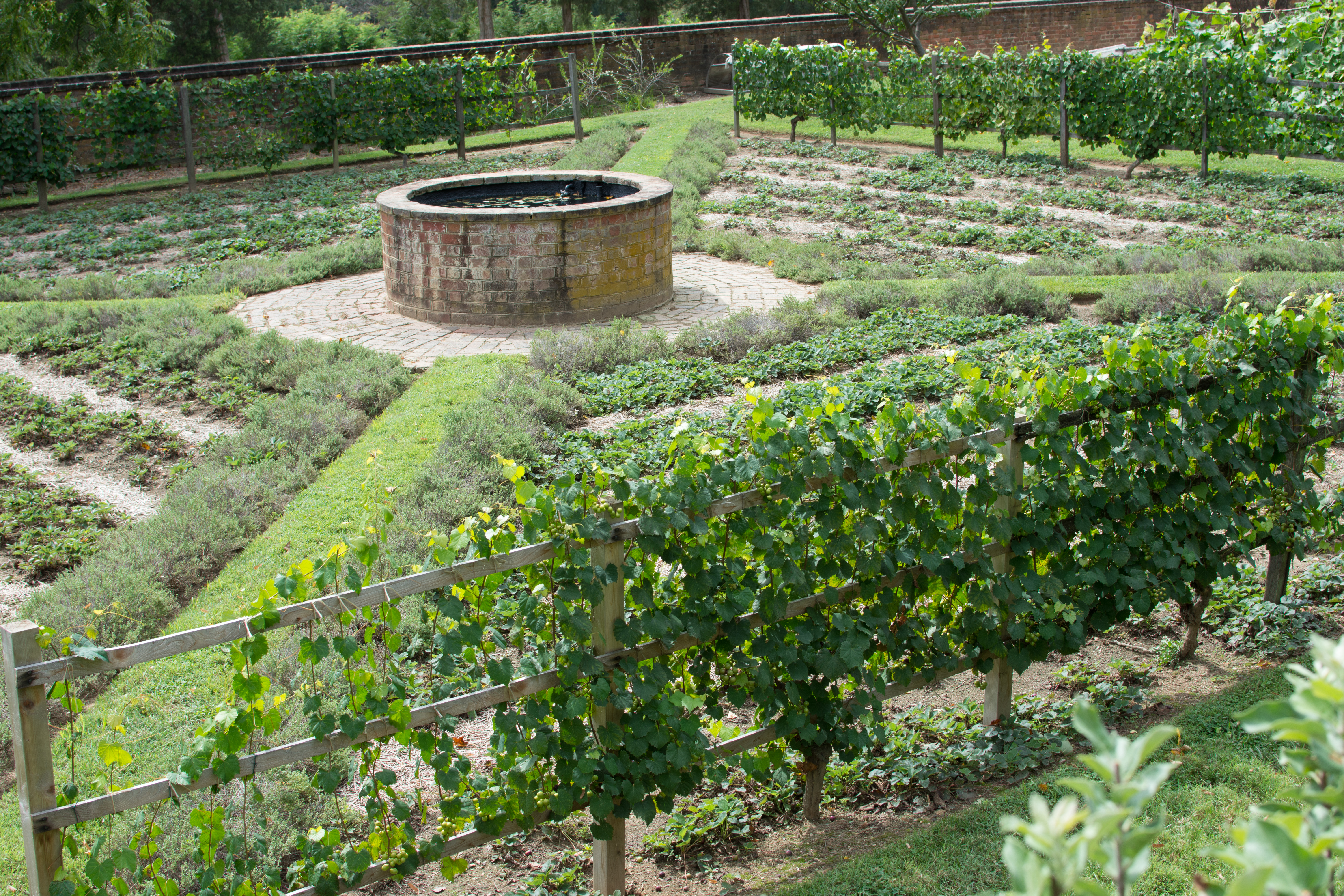 Garden at Mount Vernon, home of George Washington